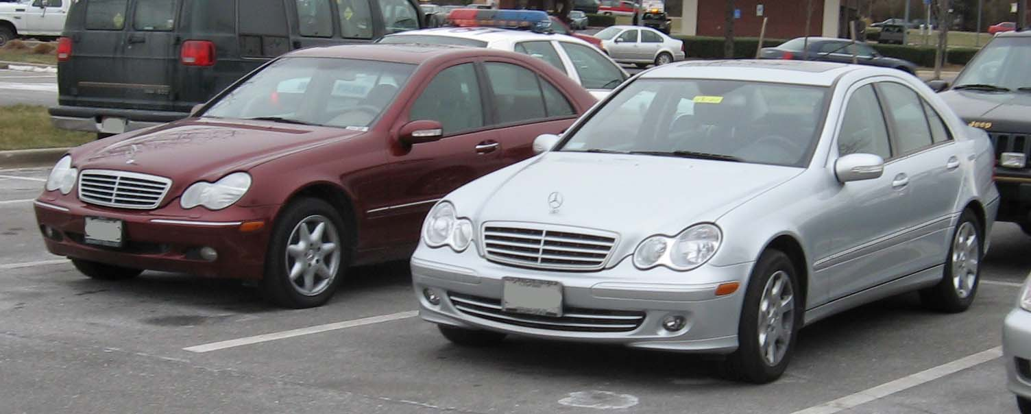 2001-2004 Mercedes-Benz C-Class (background) and 2005-2007 Mercedes-Benz C-Class (foreground) photographed in USA.